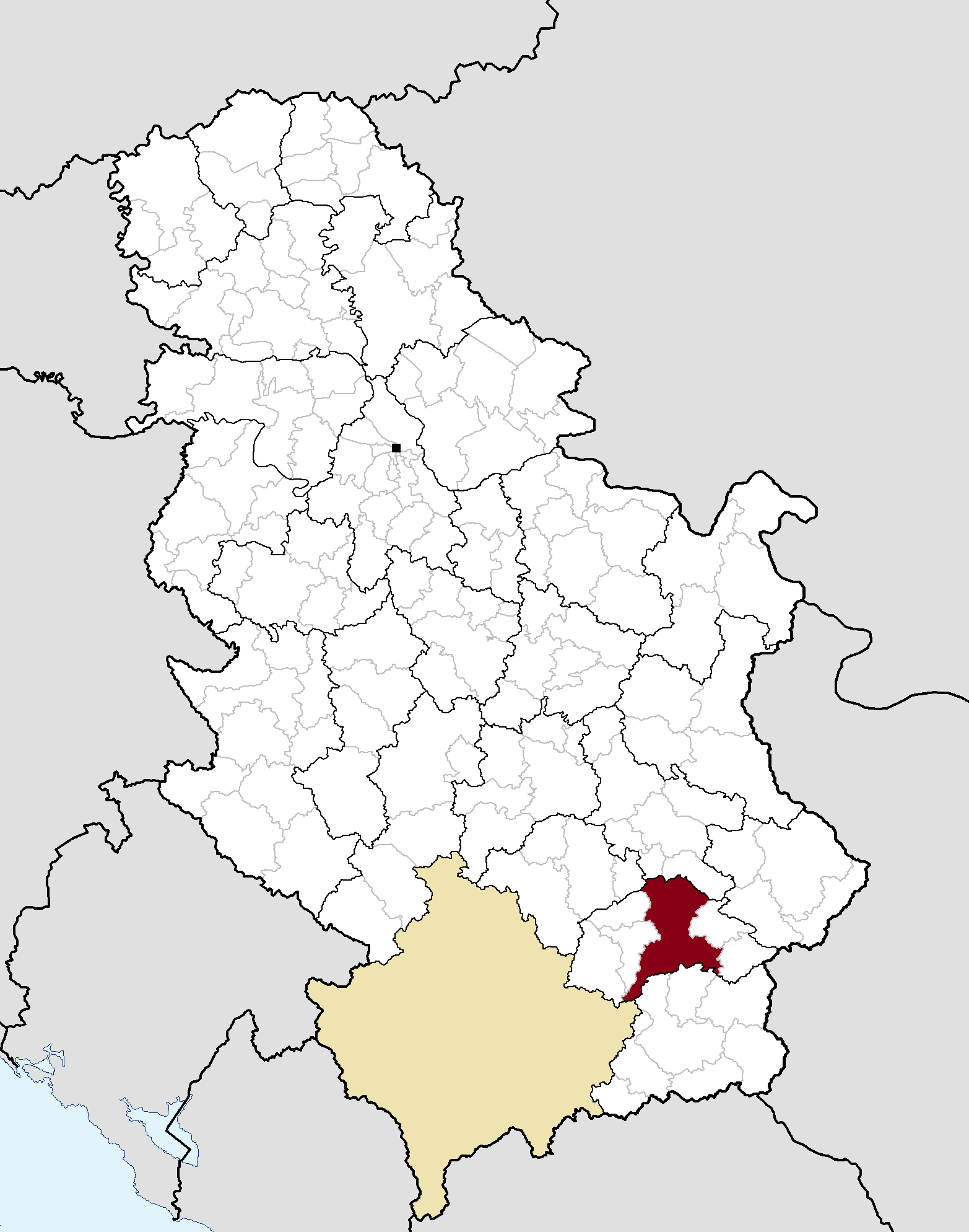 Municipal location in Serbia